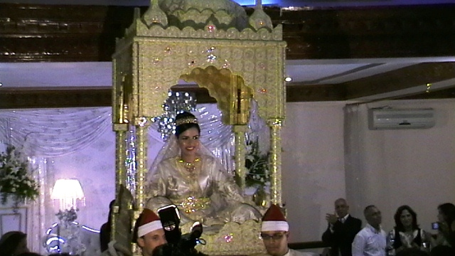 Moroccan wedding: heaving of the bride.